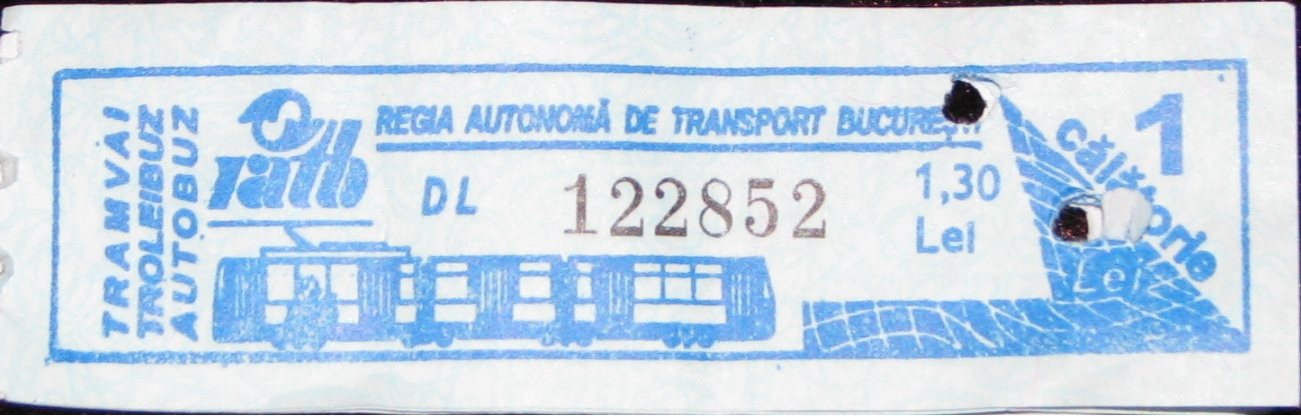 RATB ticket, 2011